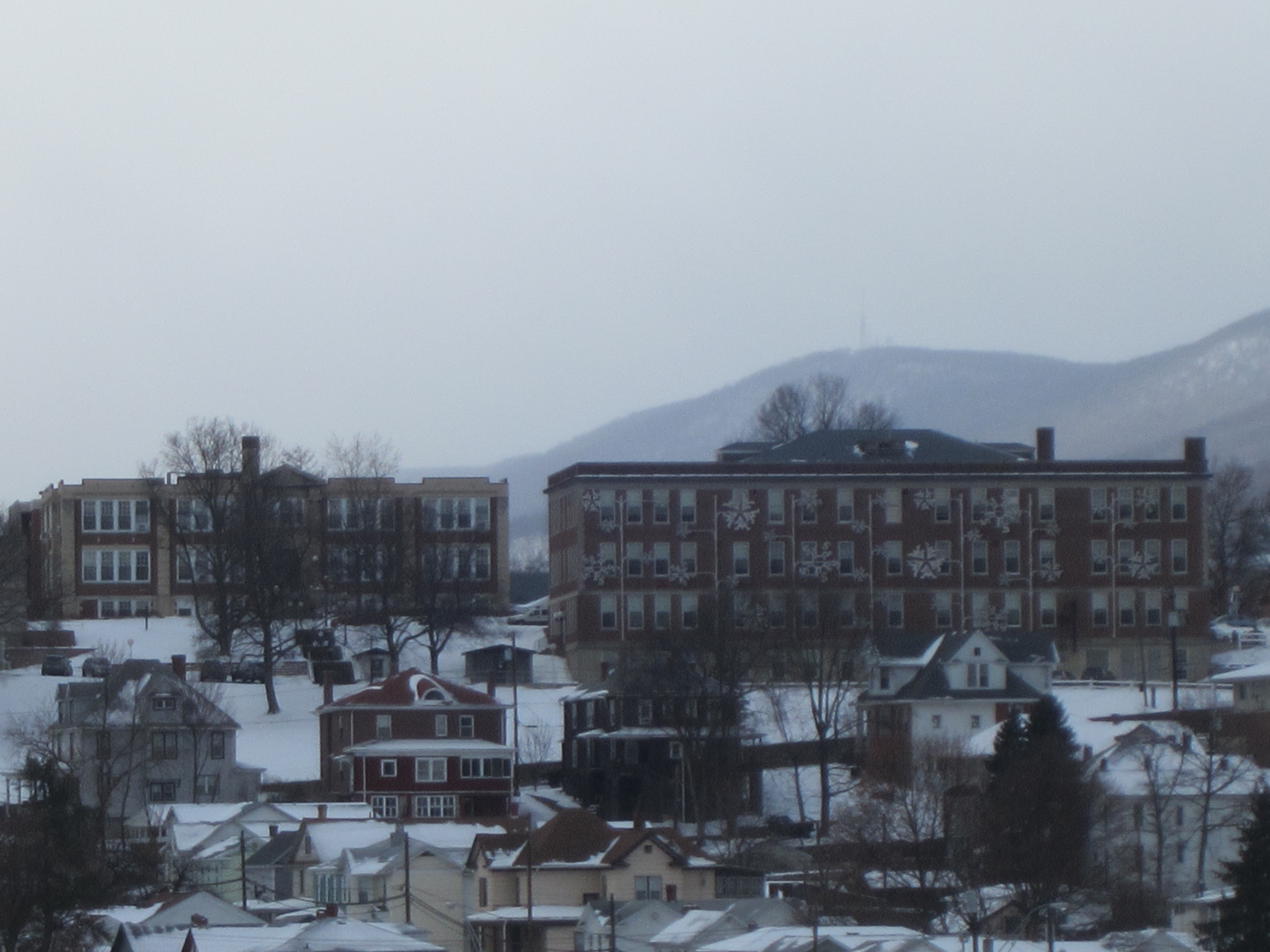 View from US-220